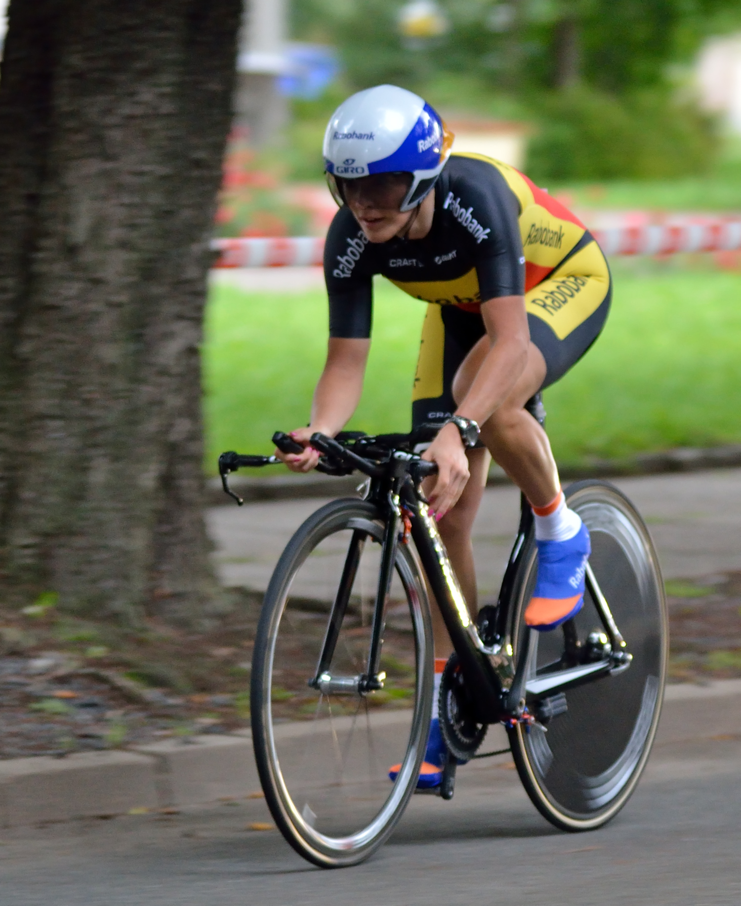 Liesbet de Vocht from the Rabobank Women Cycling Team during the Women's Tour of Thuringia 2012 in Zwickau, Germany.